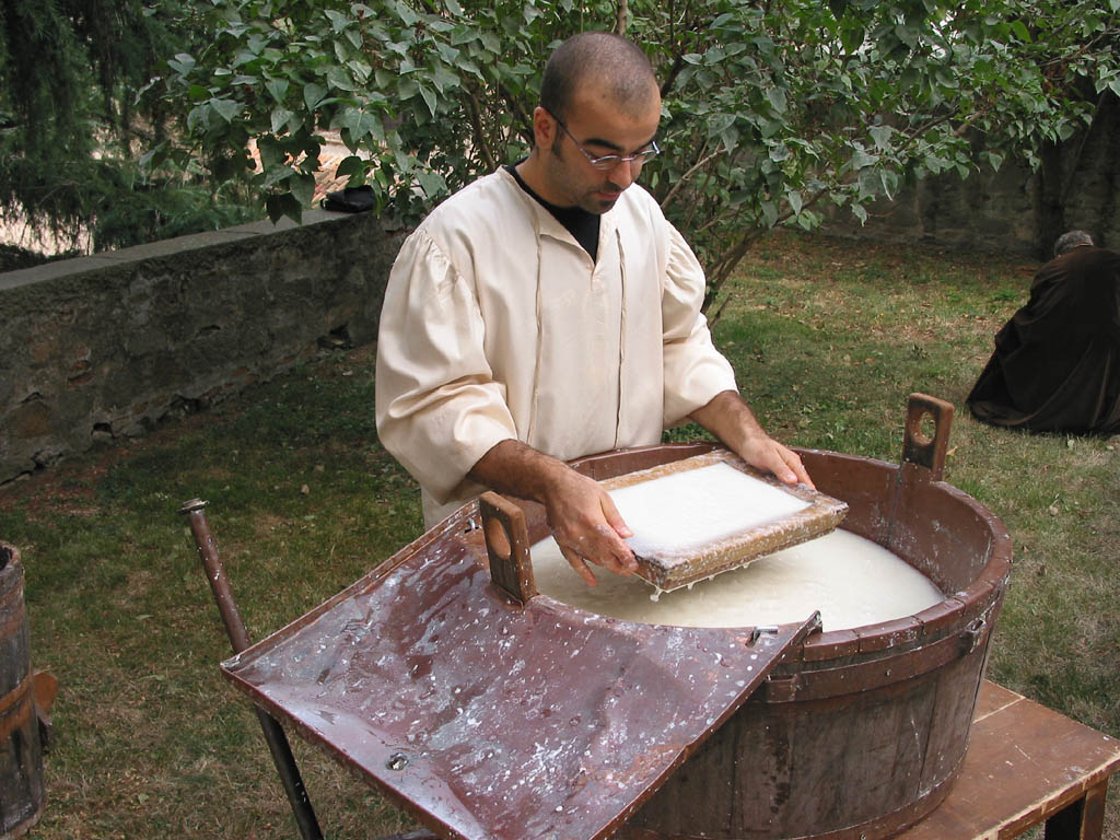 Festa Medivale di Monselice (Sept.) - The Art of Papermaking